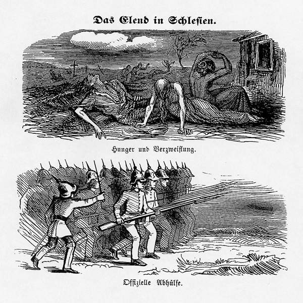 Caricature about the Weaver's Rebellion in Silesia in the 1840s "Misery in Silesia / Hunger and Despair / Government Aid"